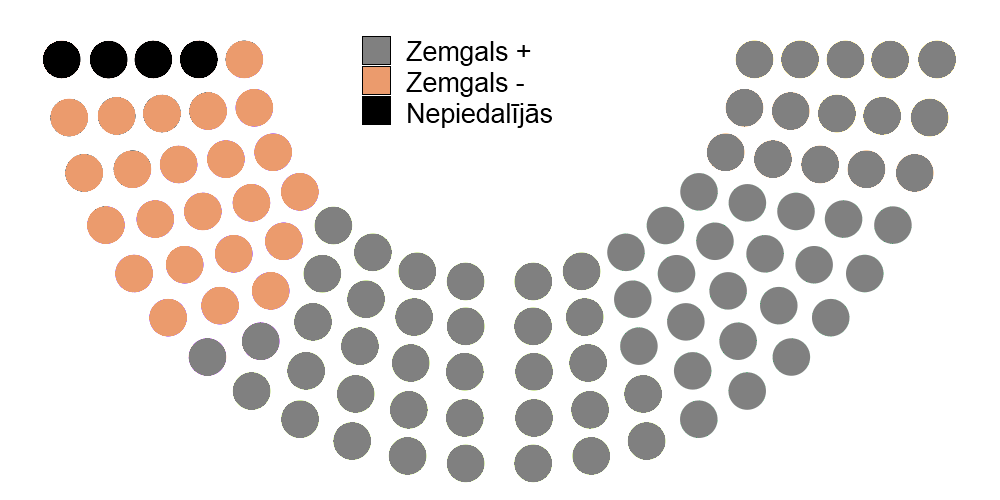 Graph showing the Saeima voting in Latvian presidential election, 1927.